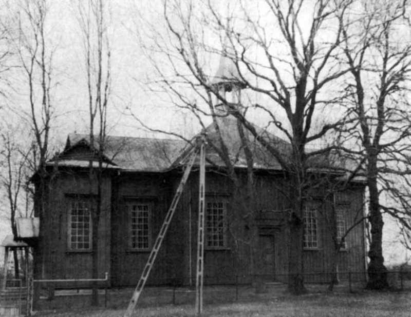 Fotografia z lat 80. XX wieku